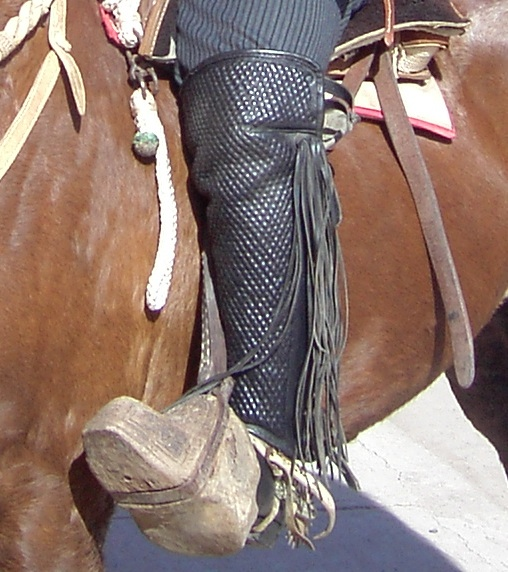 Closeup of a Chilean rider's leg.